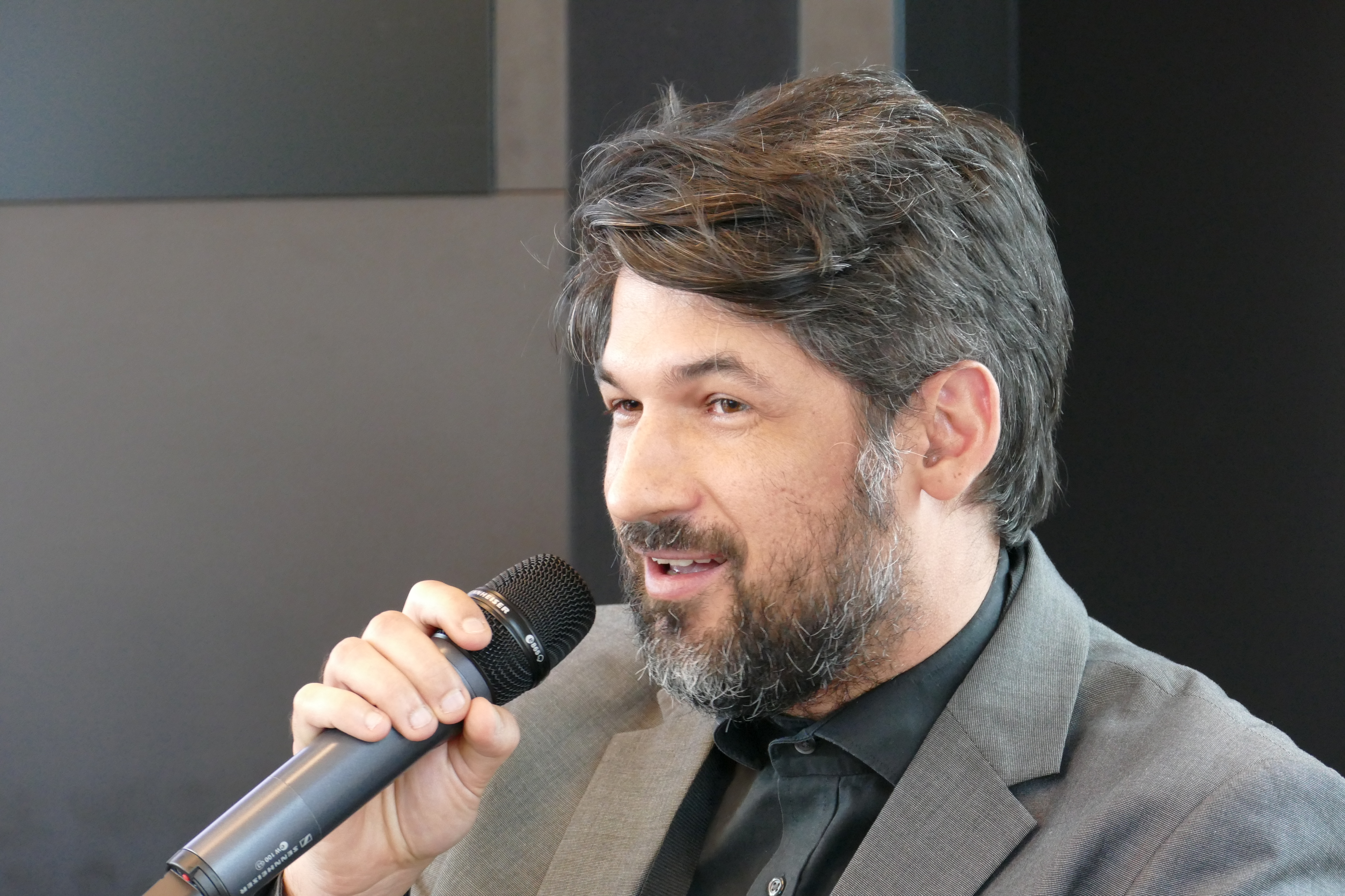 The Brazilian poet Ricardo Domeneck at the event Fokus Lyrik 2019 in Frankfurt